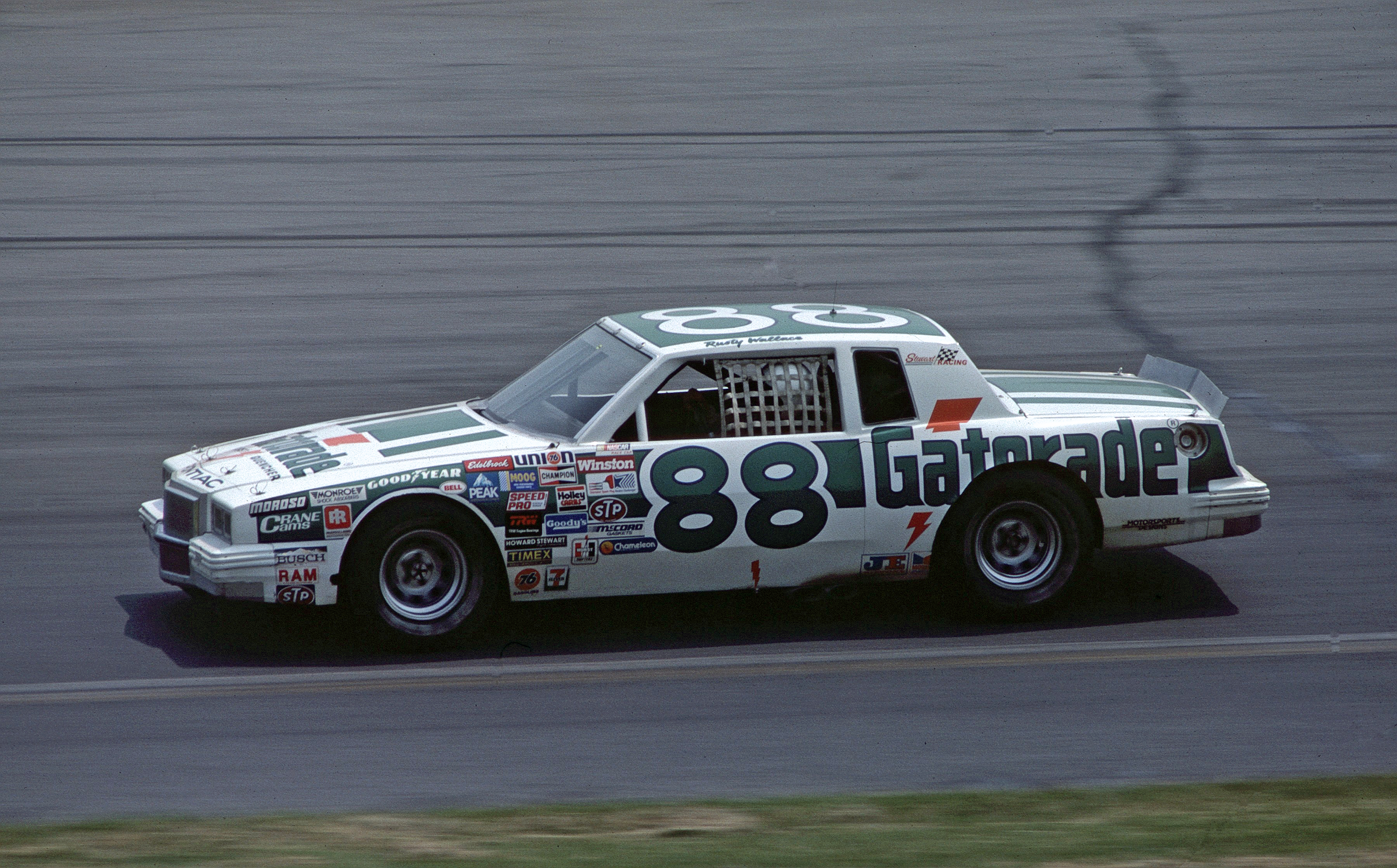 NASCAR Rookie of the Year Rusty Wallace's 1984 Pontiac racecar at Pocono, the #88 Gatorade car. Taken by Ted Van Pelt.